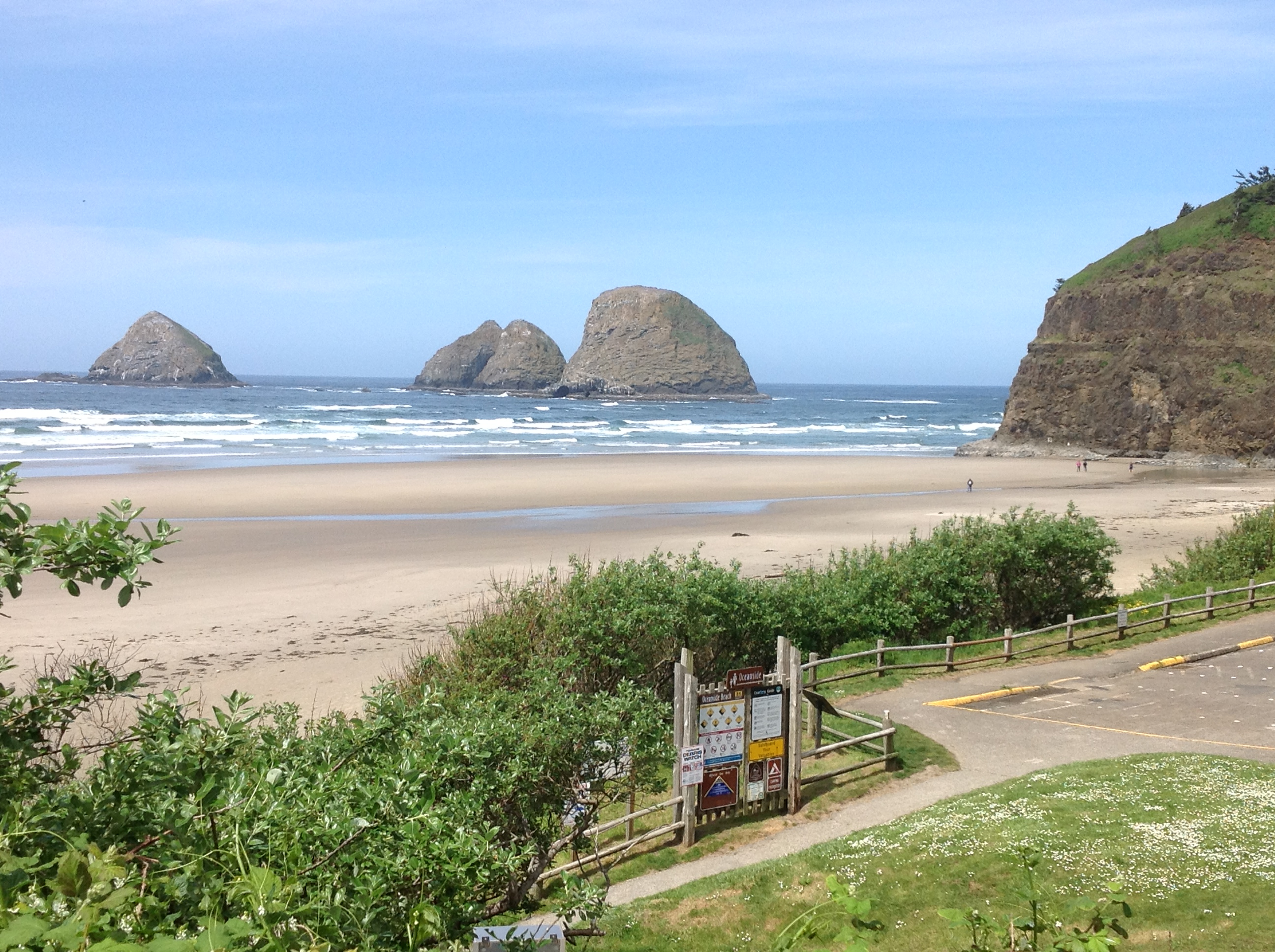 View on Three Arch Rocks National Wildlife Refuge as seen from Oceanside (Oregon)